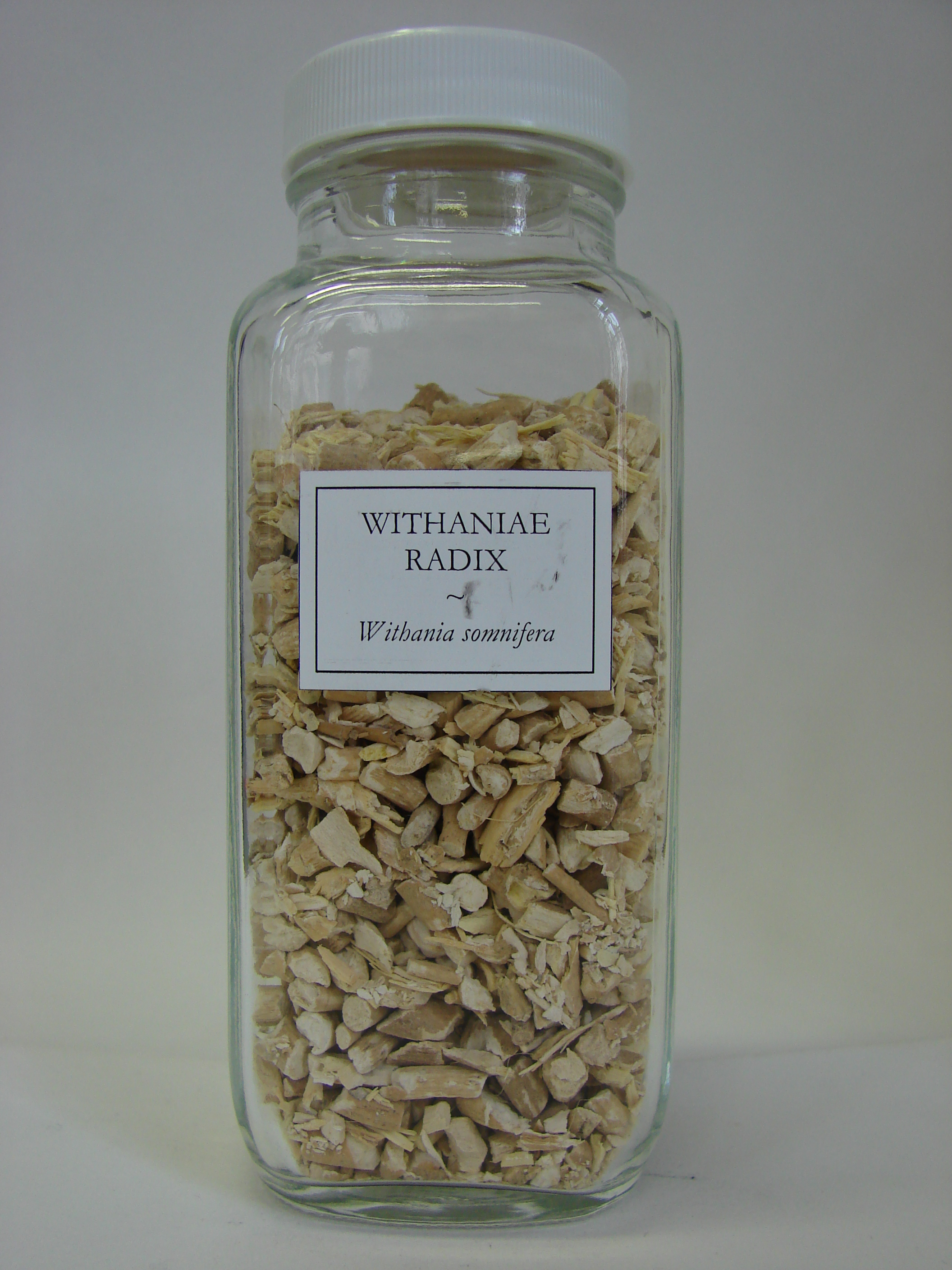 Withaniae radix, Withania somnifera